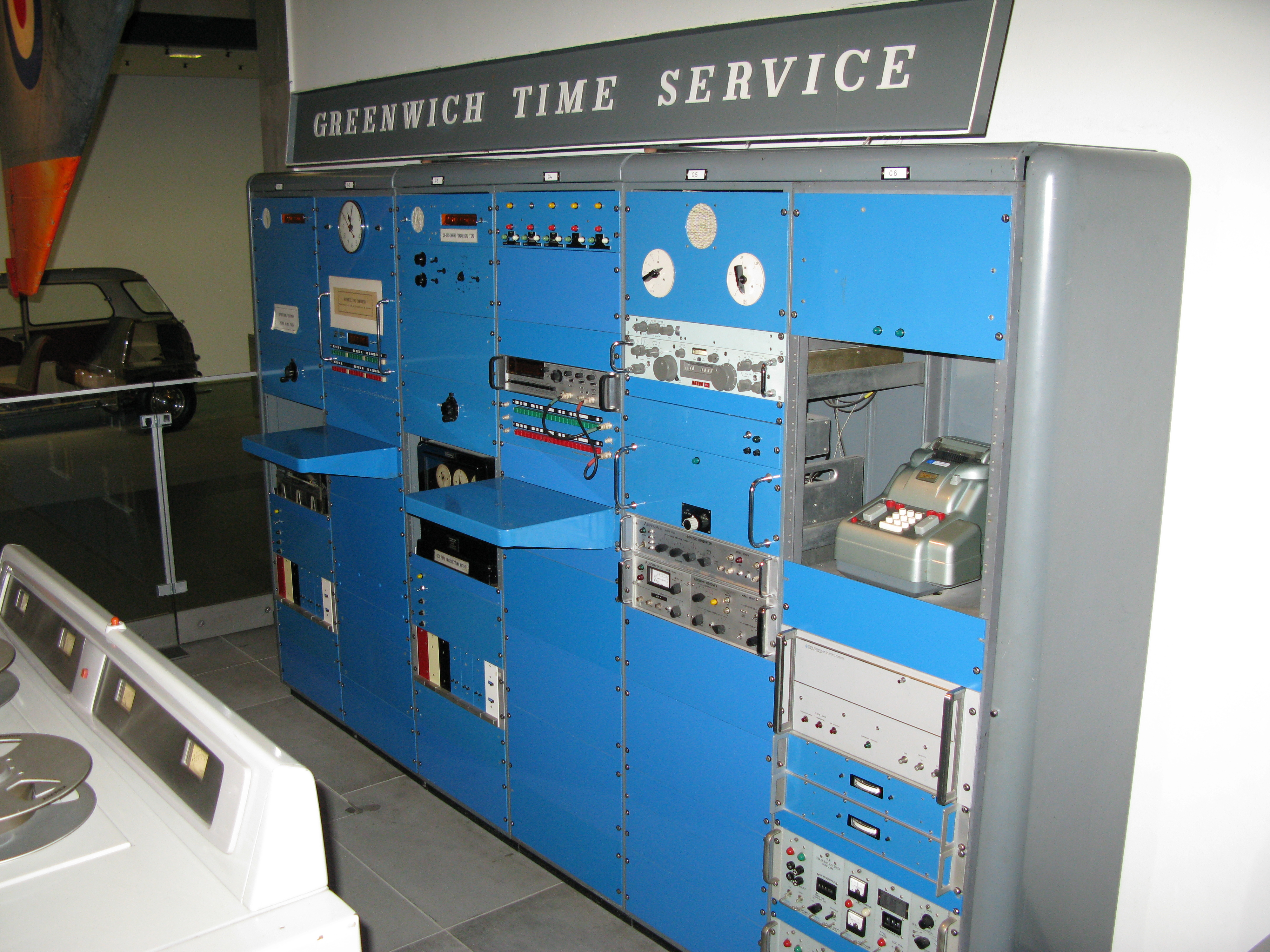 Photo of the machine used to generate the Greenwich Time Signal (the pips) in the 1970s